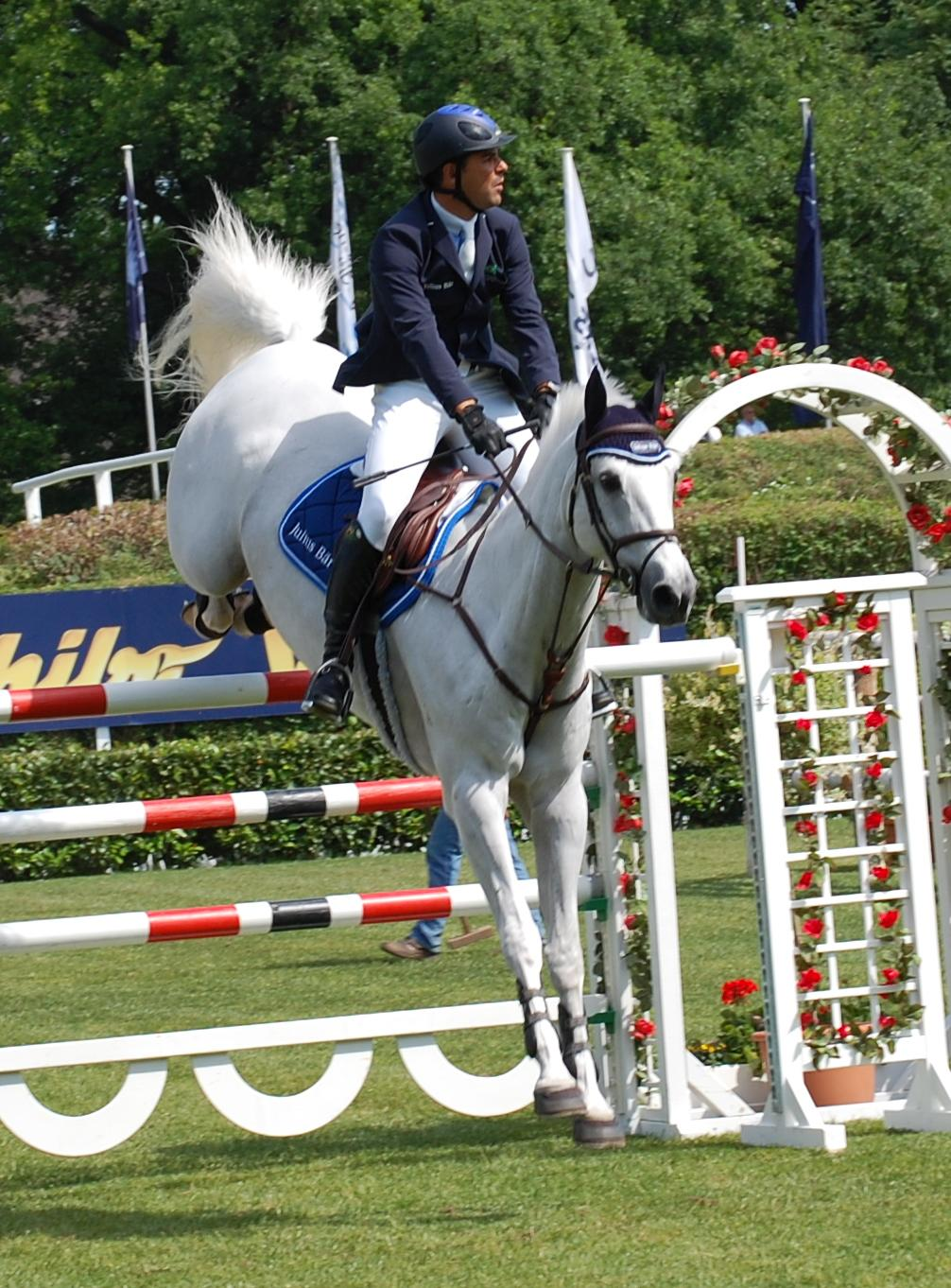 Álvaro Affonso de Miranda Neto with AD Ashleigh Drossel Dan, "Championat von Hamburg", CSI 5* Hamburg 2011